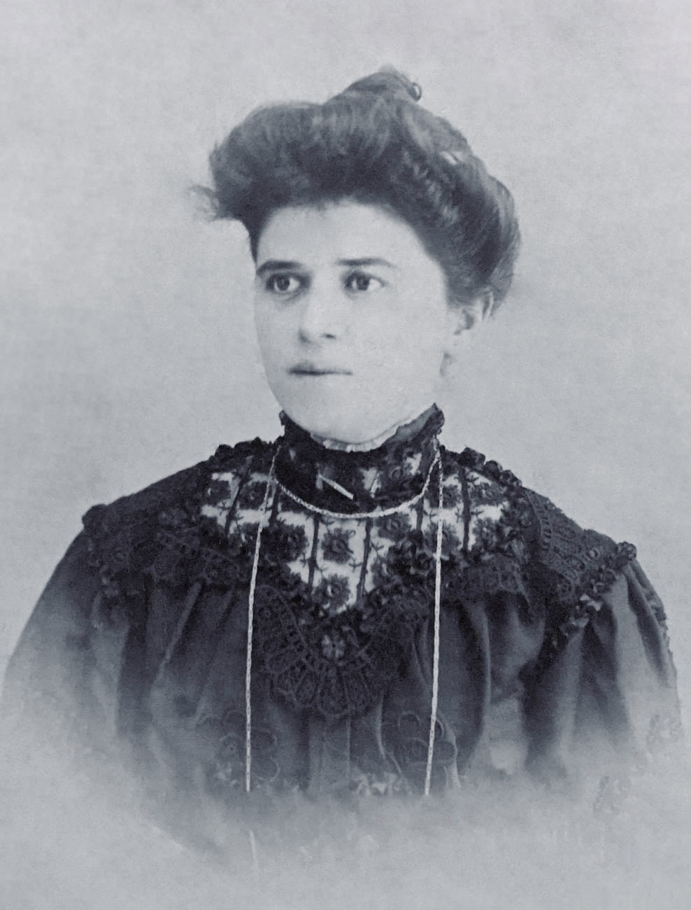 Sevasti Qiriazi portrait